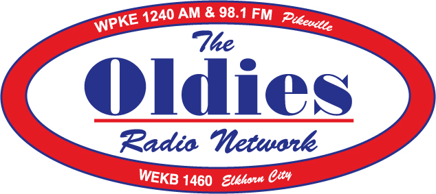 Oldies Radio Network, Pikeville Logo